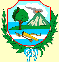 Coat of arms of this department of GuatemalaPermission